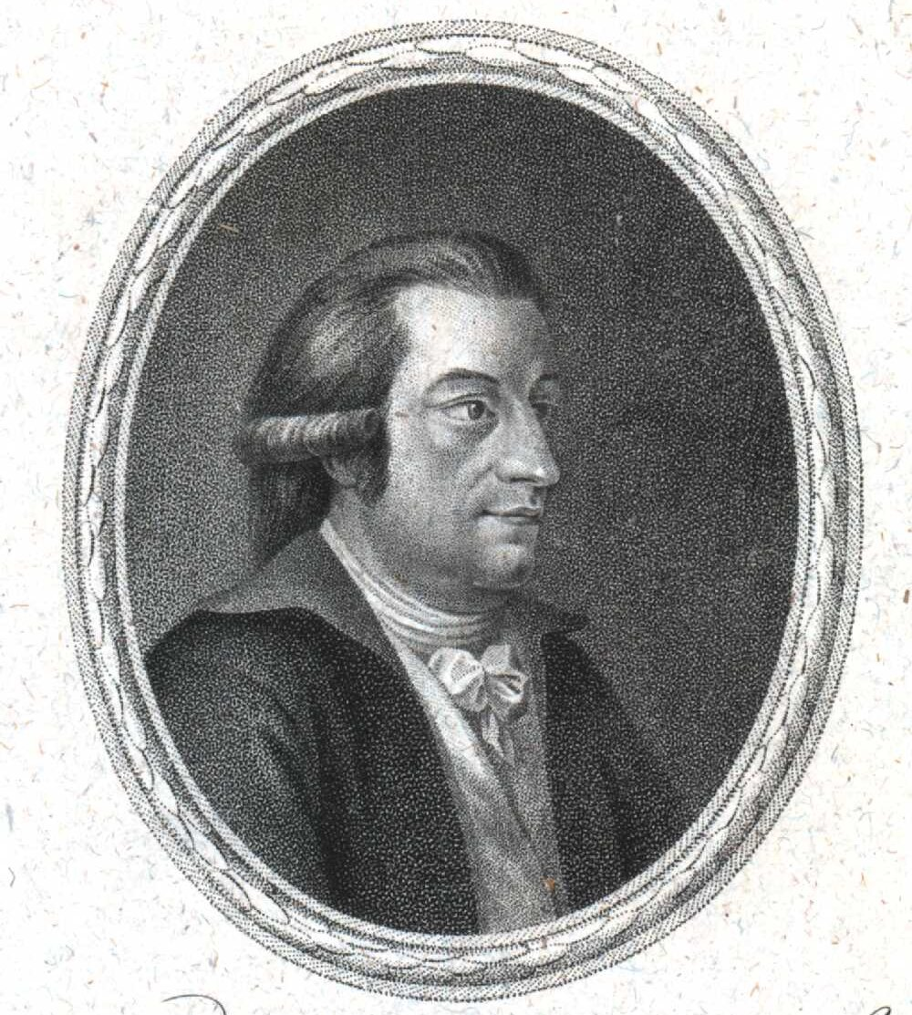 Portrait of Franz Xaver von Zach (1754-1832), Hungarian astronomer